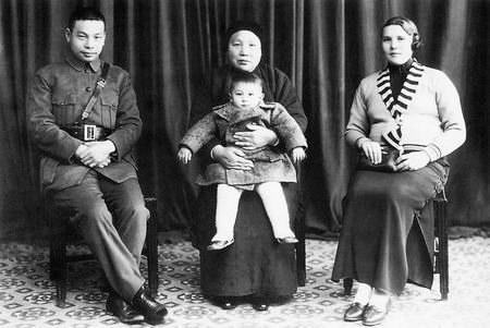 Chiang Ching-kuo with his mother Mao Fumei, pregnant wife Faina and their first son Chiang Hsiao-wen in 1937.